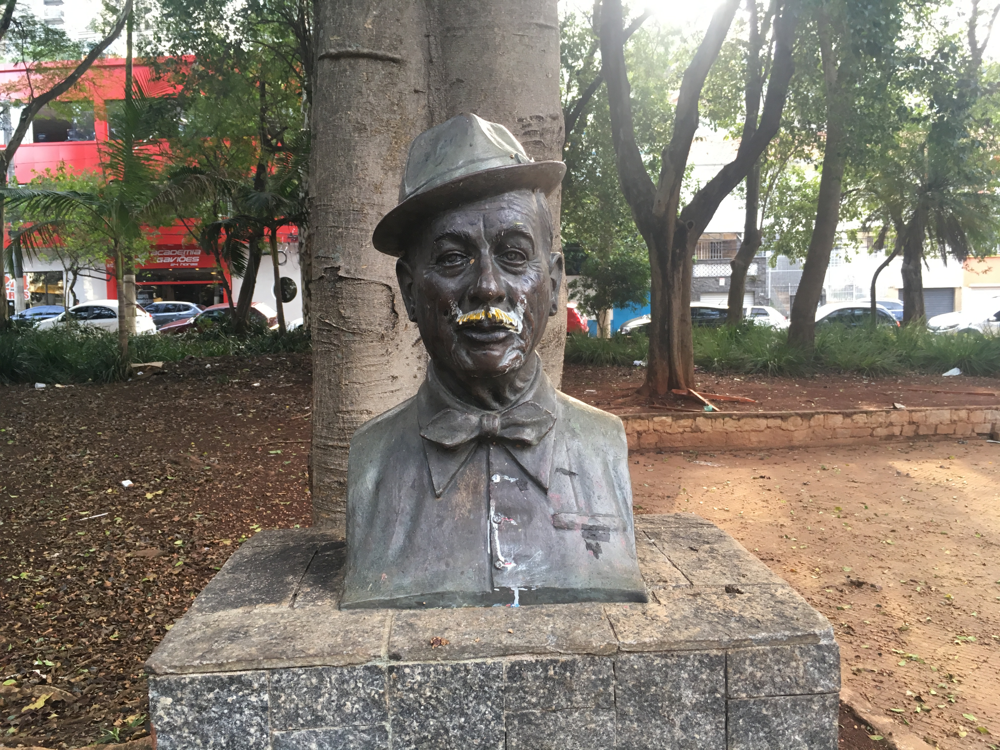 Front view of Statue of Adoniran Barbosa, Don Orione Square, Sé, São Paulo, Brazil